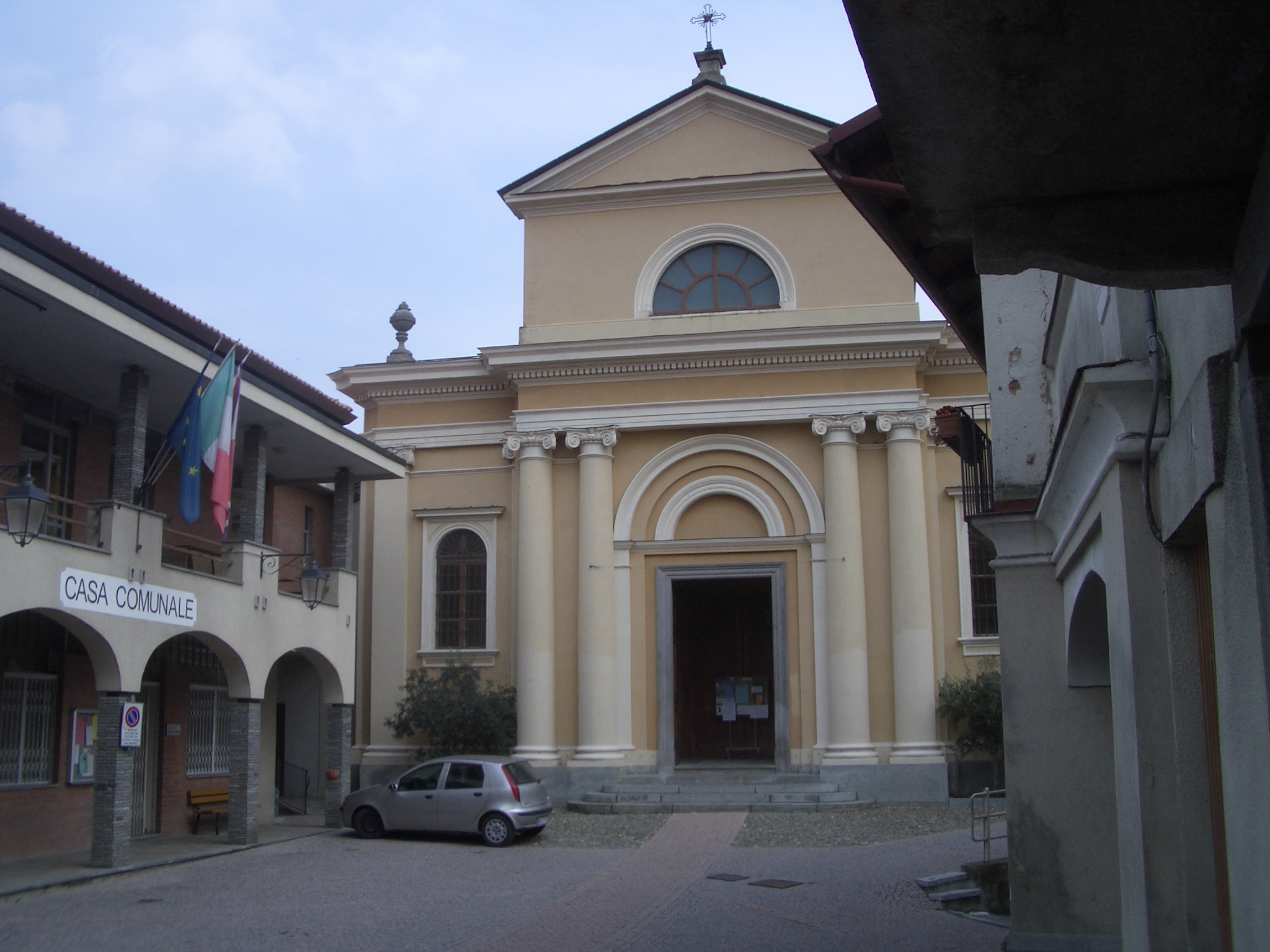 Netro, A square with the Town-Hall and the Parish Church